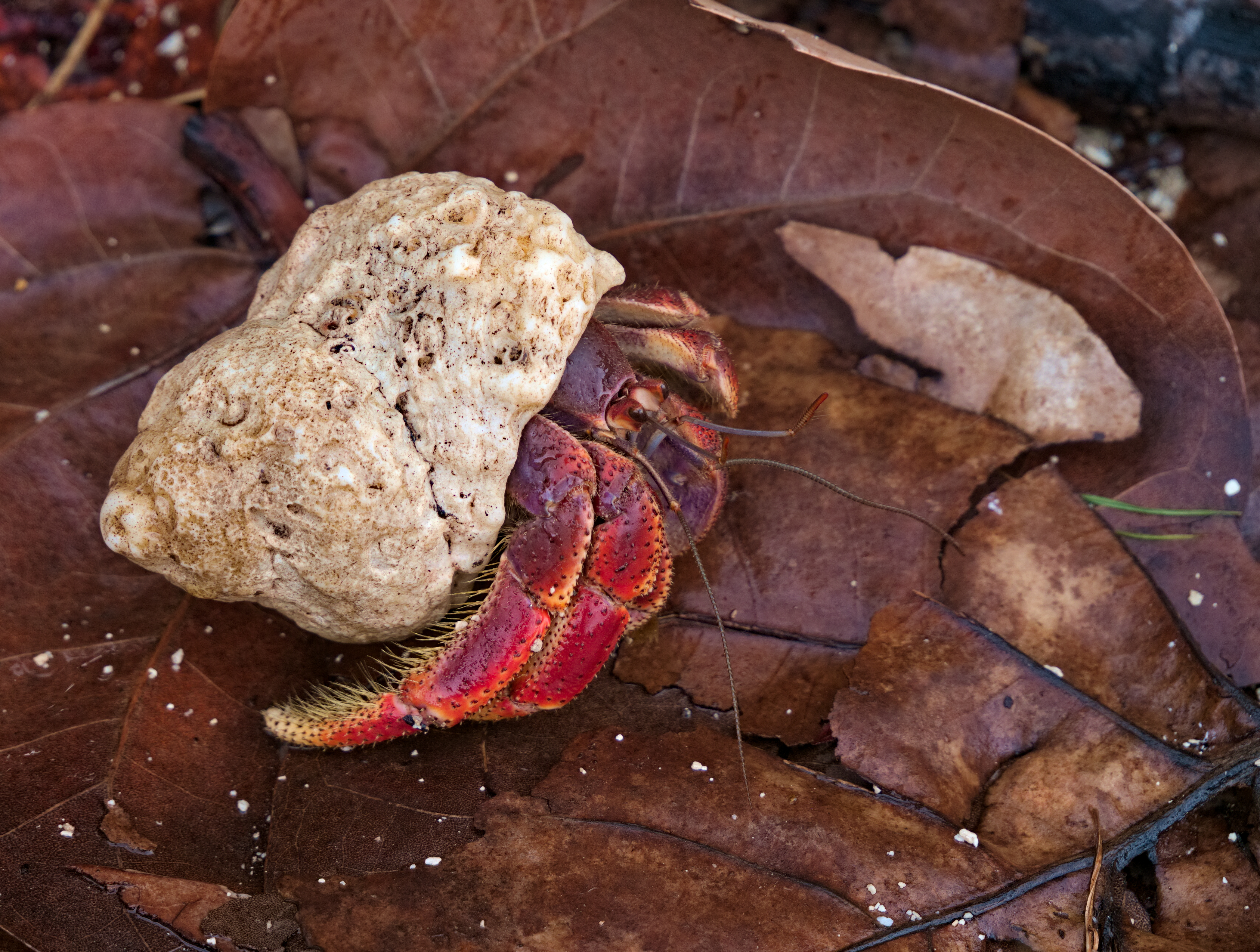 A Caribbean hermit crab (coenobita clypeatus) on Garden Key in the Dry Tortugas National Park, Florida.